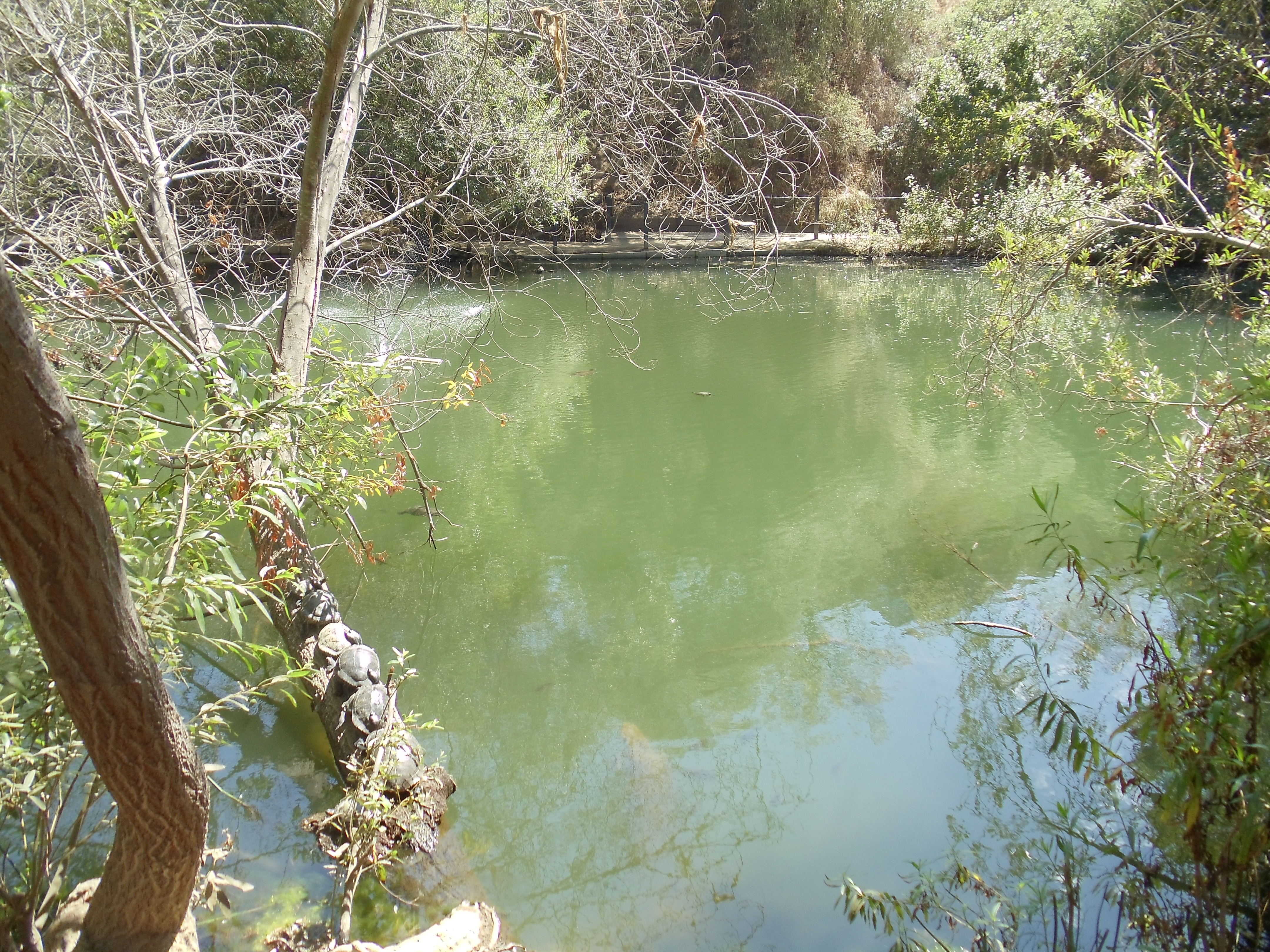 Heavenly Pond in Franklin Canyon Park, Los Angeles, California